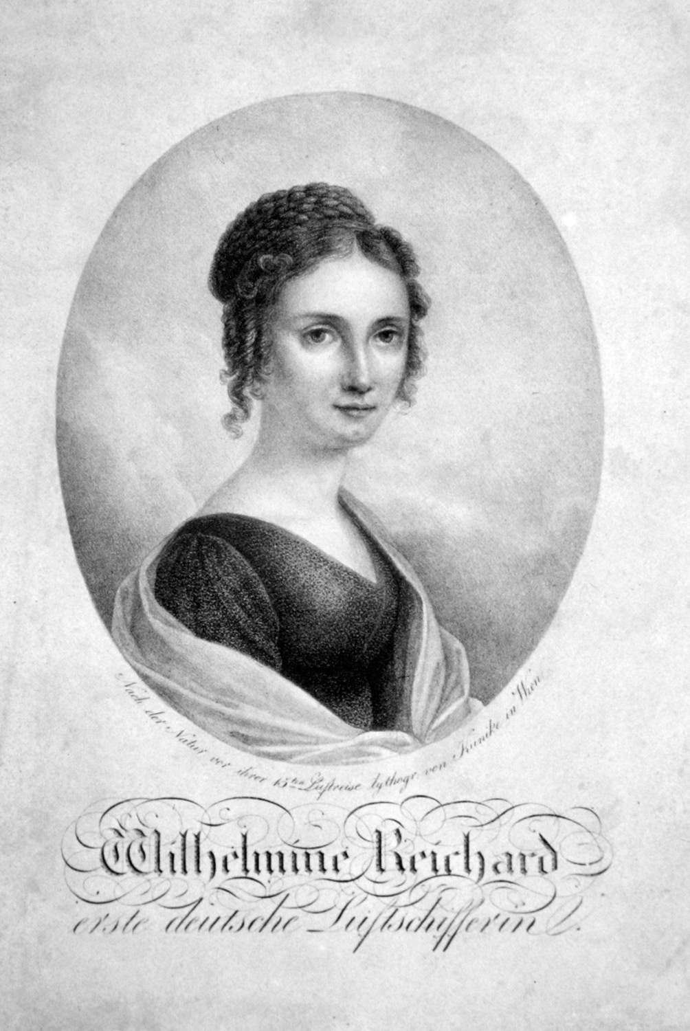 The portrait of Wilhelmine Reichard (1788—1848), German balloonist